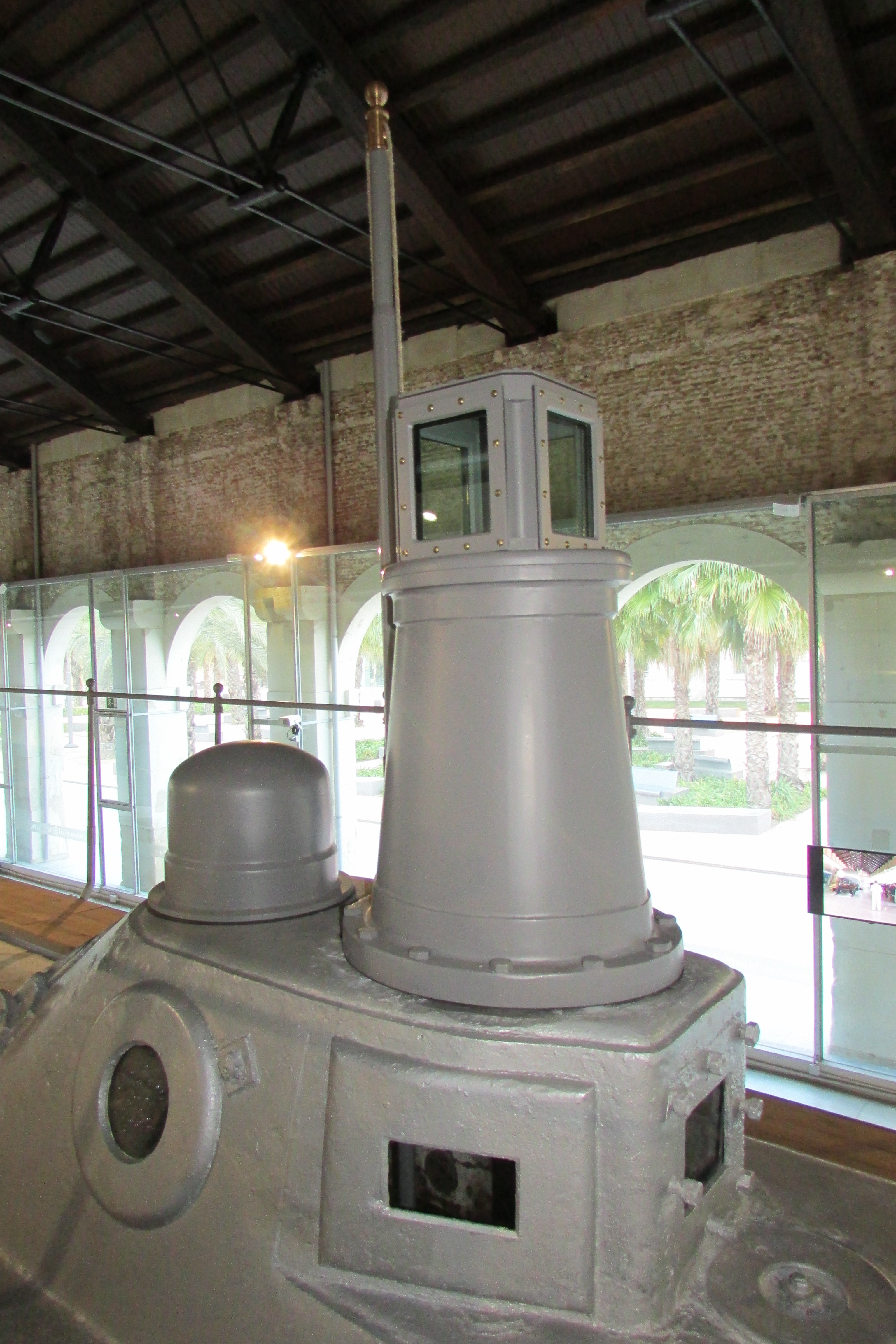 Isaac Peral's submarine: turret (Naval Museum, Cartagena)